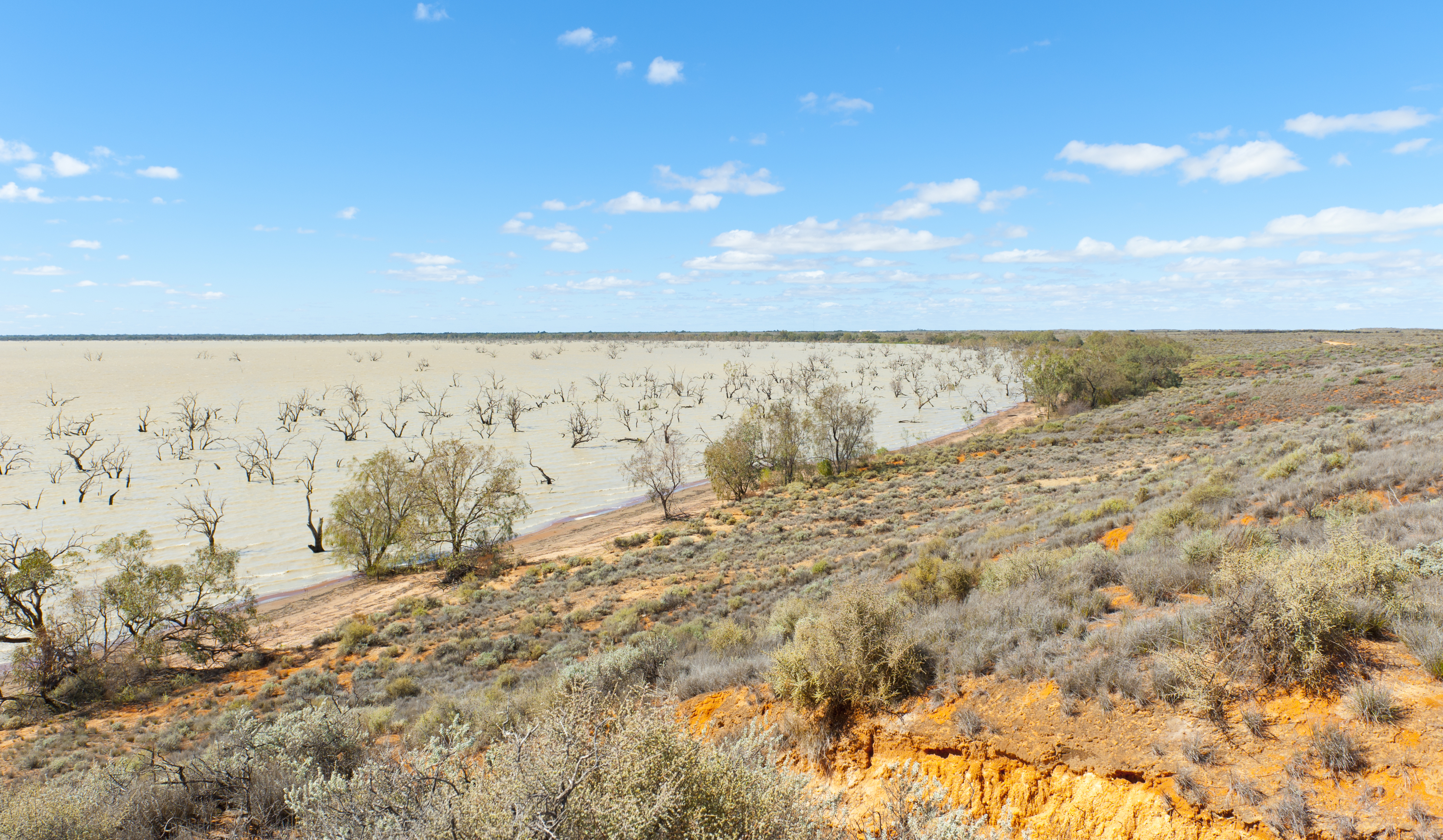 Lake Pamamaroo, part of the Menindee Lakes.